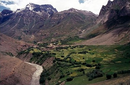 Farmland in Kargil District, Lamakh.